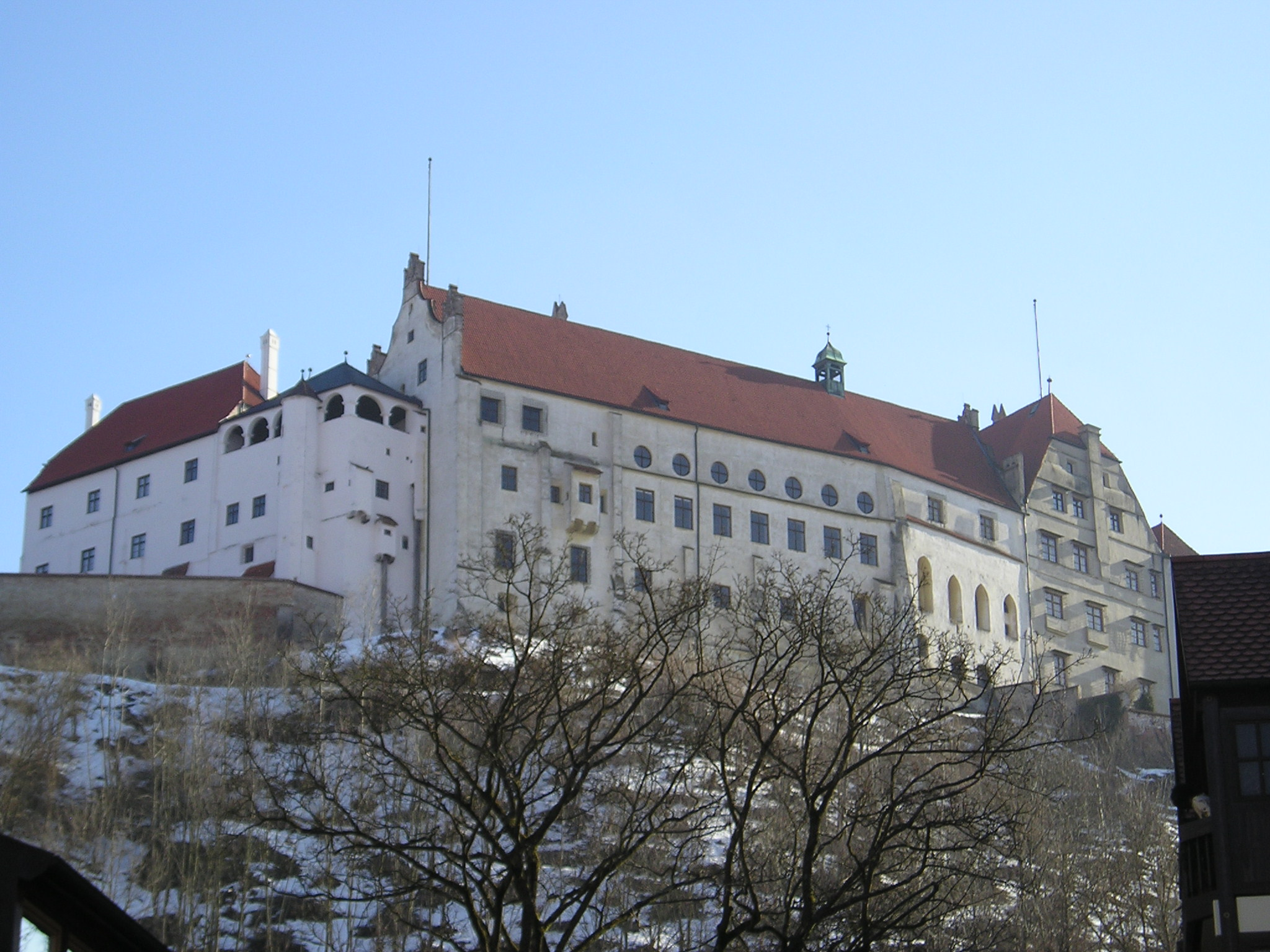 Burg Trausnitz, north facade. Taken in March after snowfall.